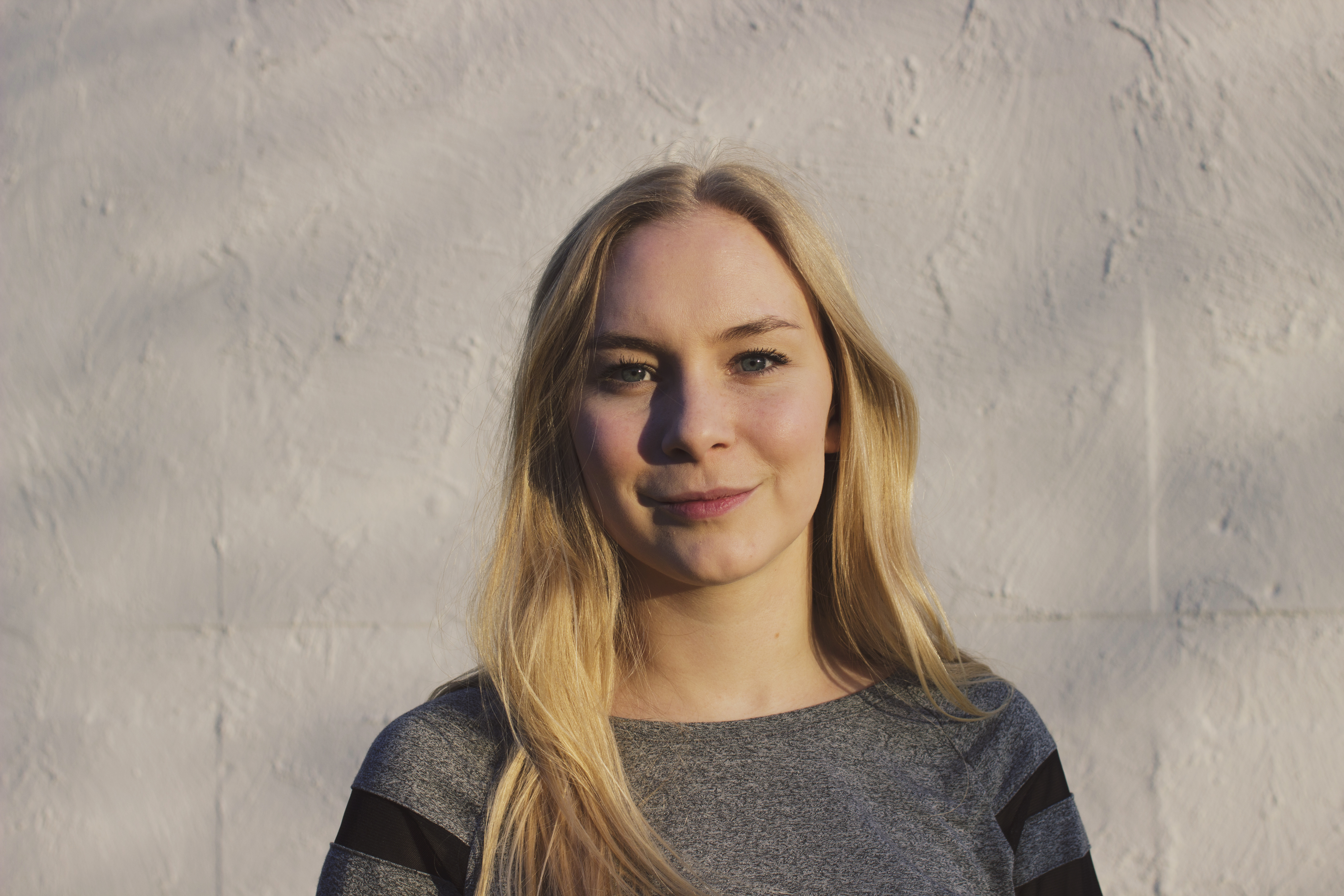 Linn-Elise Øhn Mehlen, leader of the Norwegian youth organization Red Youth.